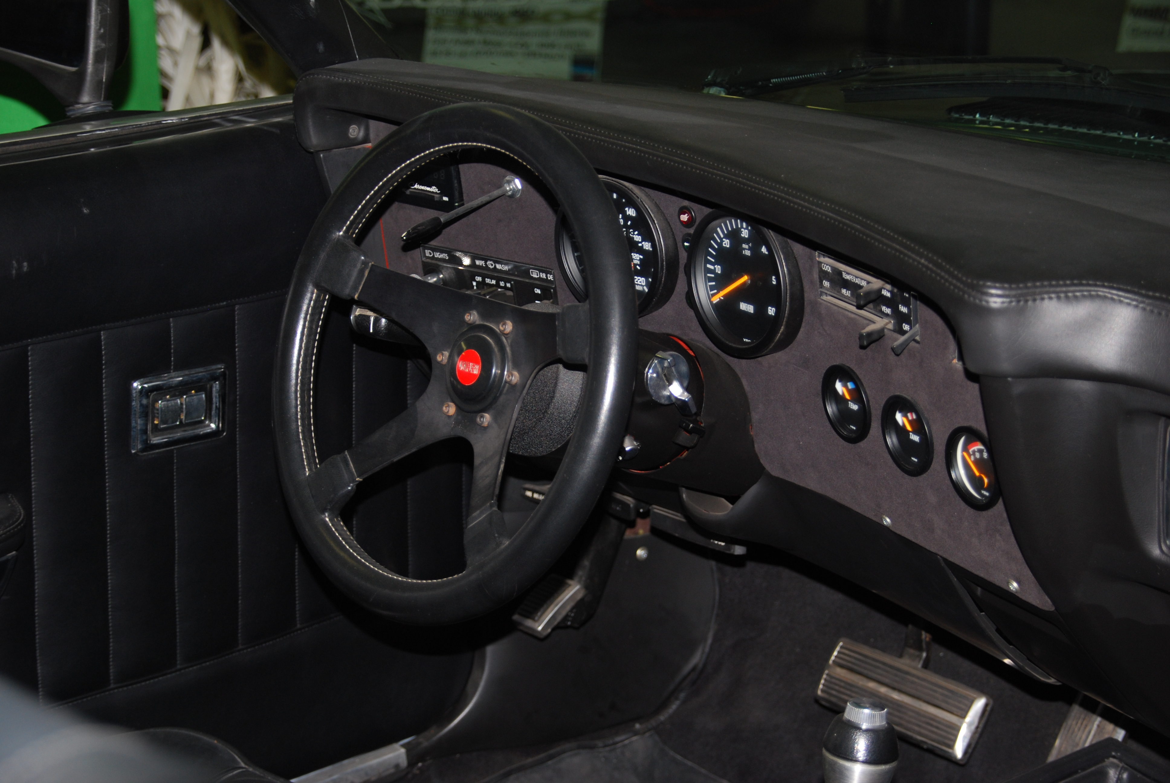 Monteverdi Sierra, Cockpit.